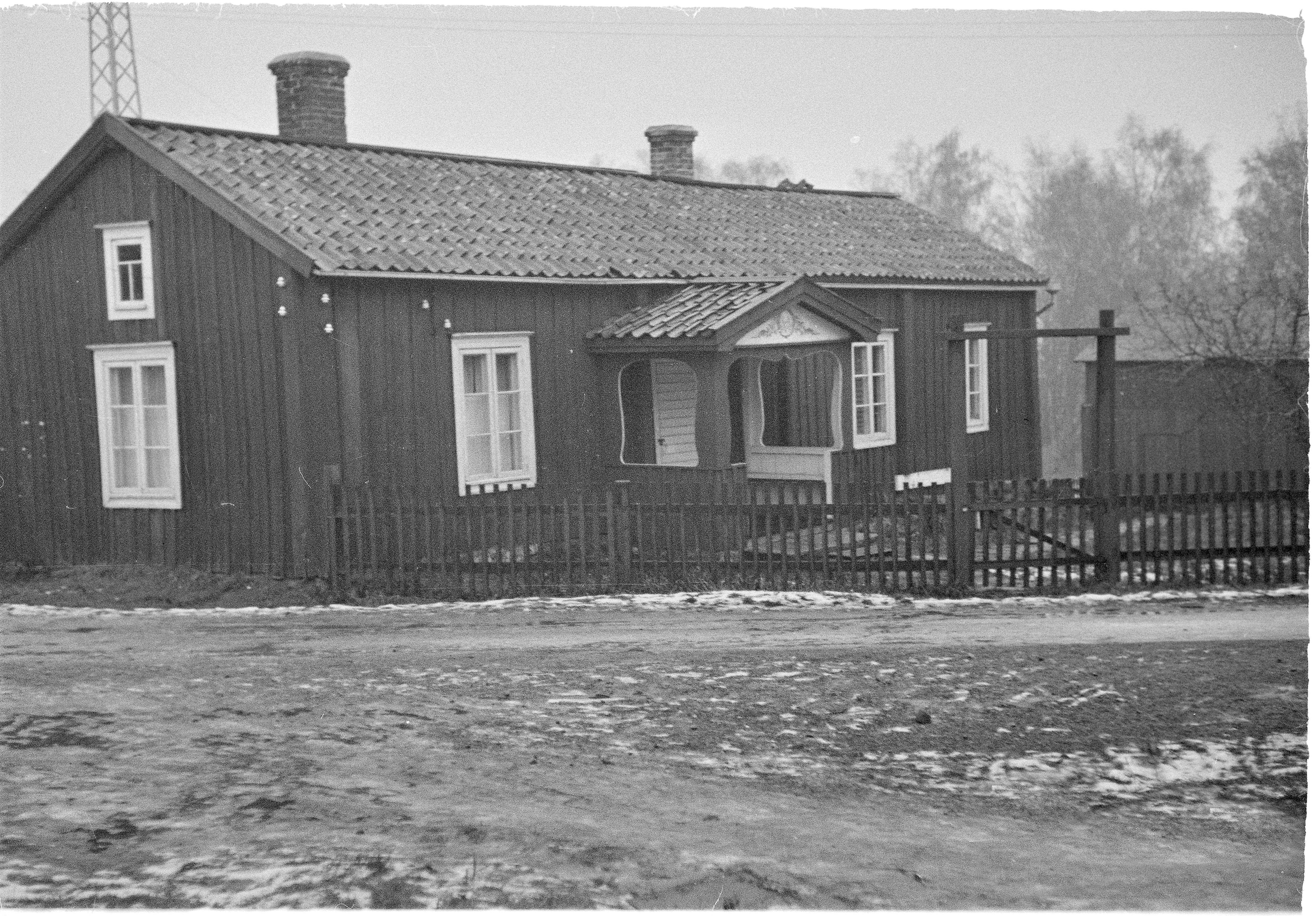 Picture taken some time between 1939-1945 by I. Vasenius. Original title "Marianhaminan talotyyppejä" translated as "House types of Mariehamn". Depicting Övernässtugan, the oldest kept house in Mariehamn, Åland